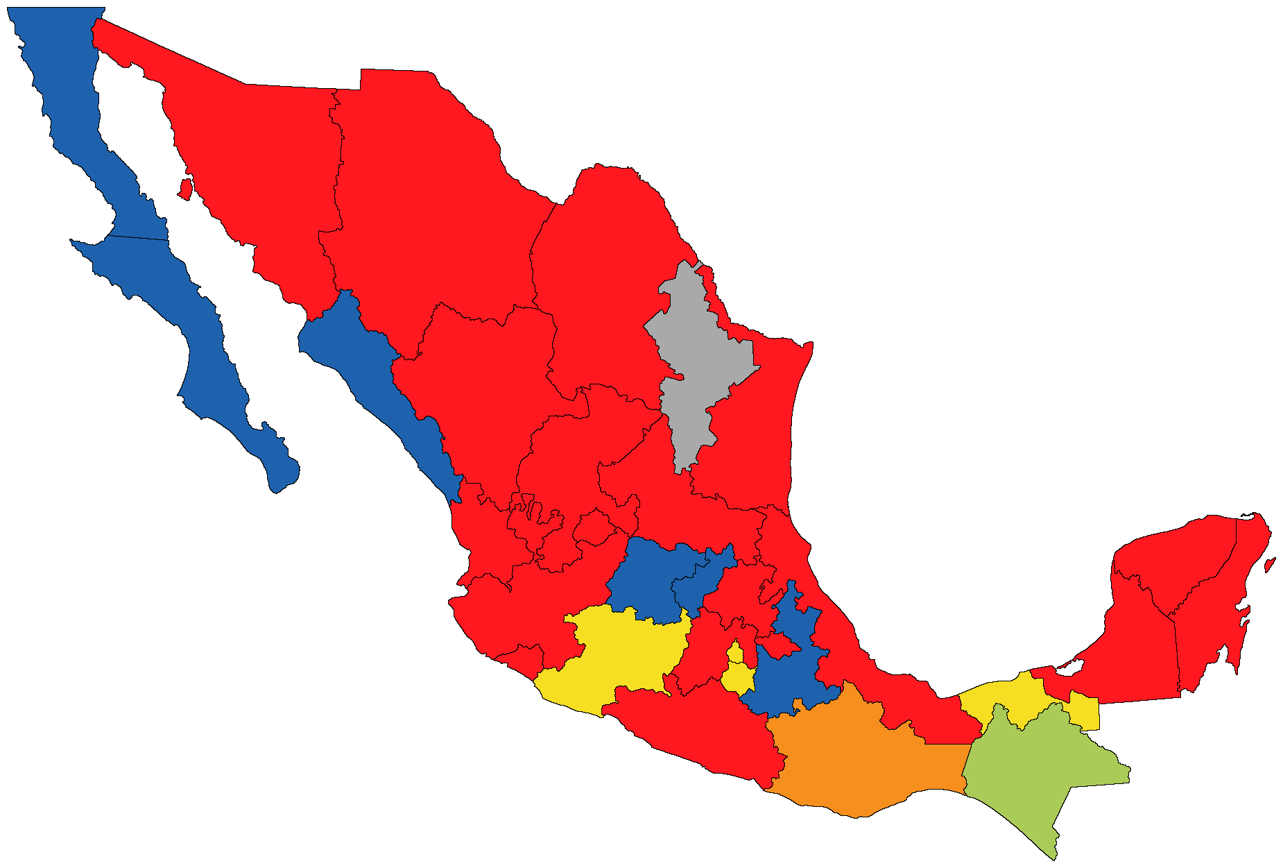 Map of the party affiliations of the current Governors of Mexico